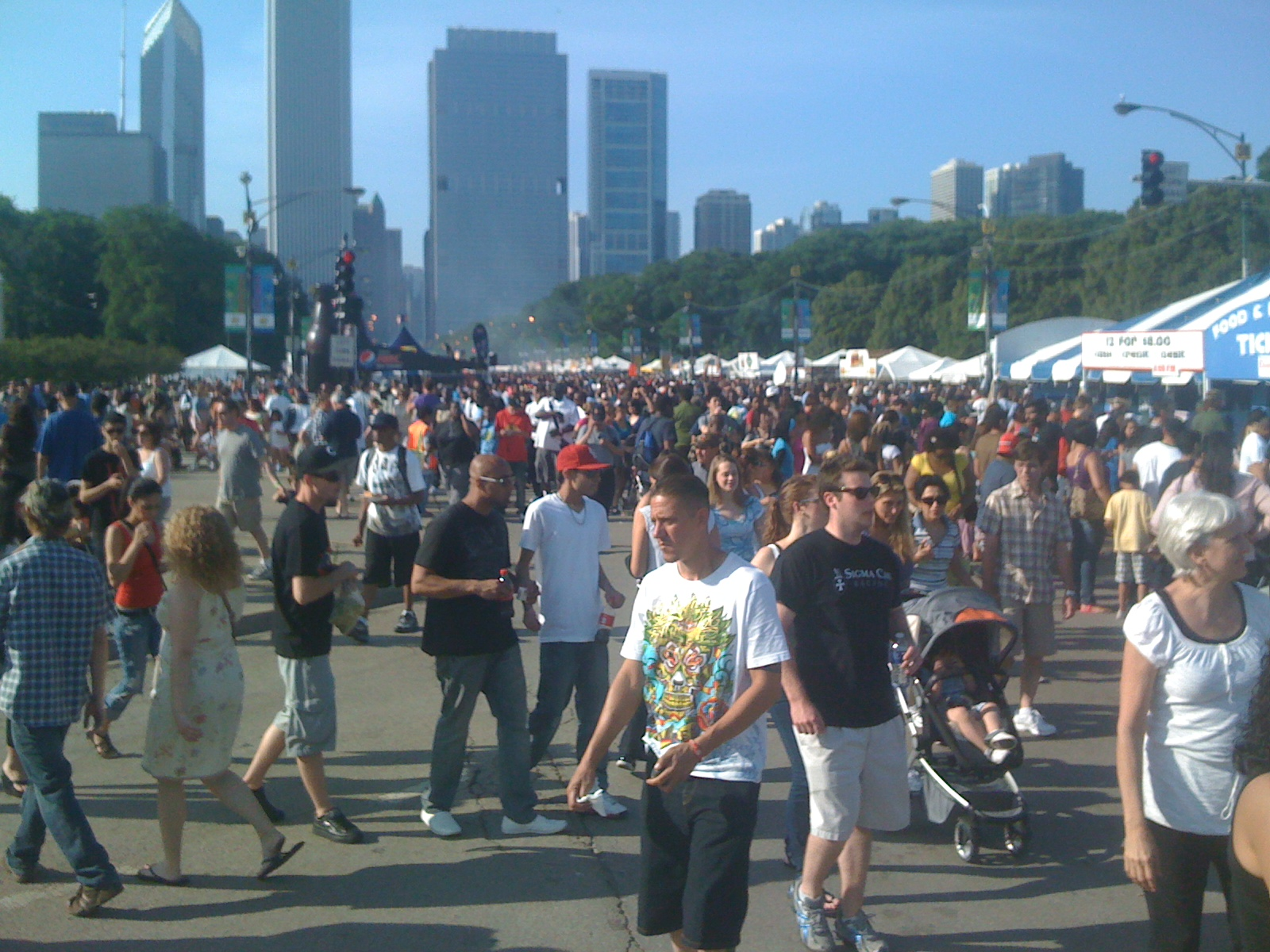 20110626 03 Taste of Chicago